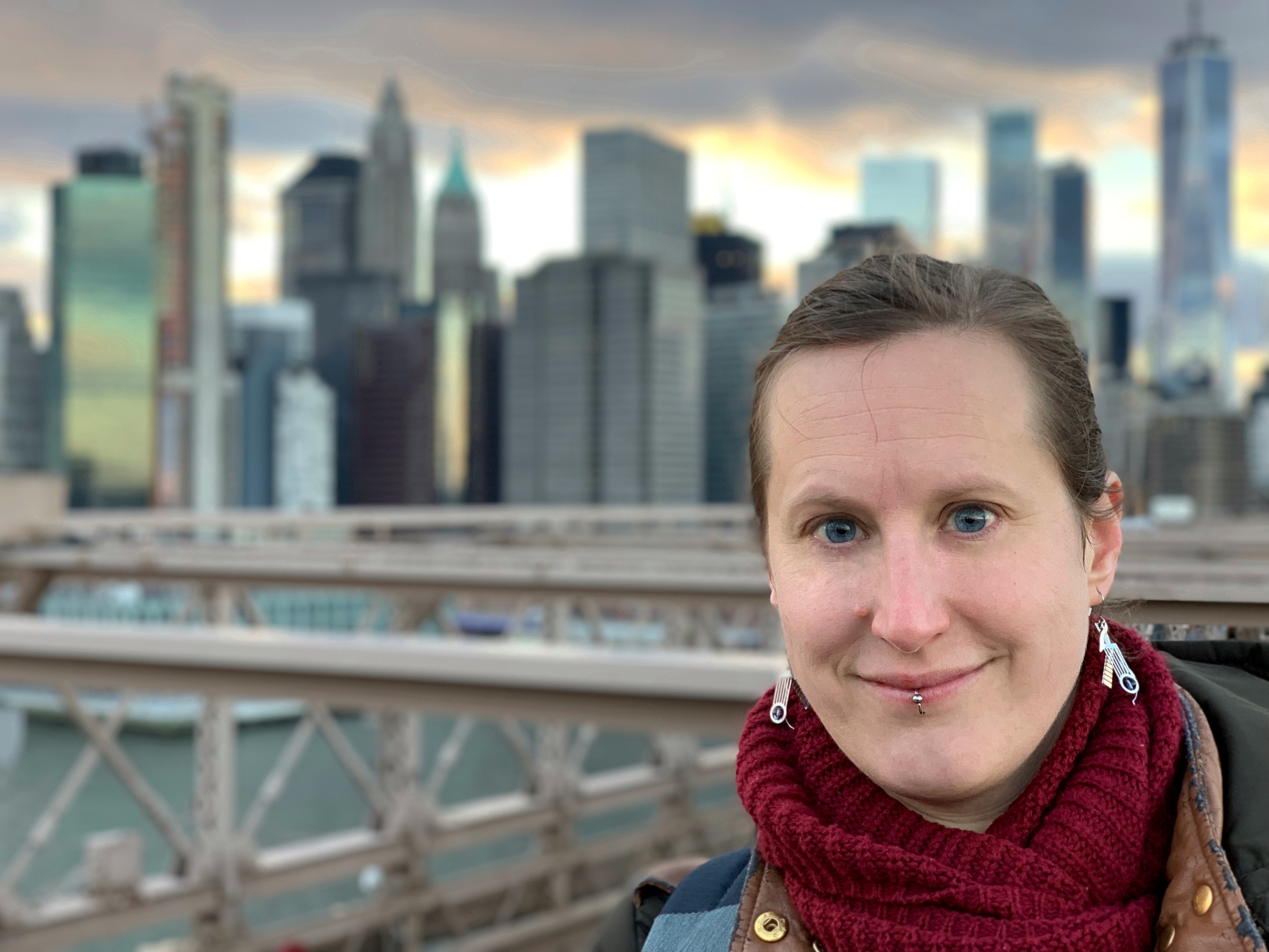 Felienne in New York, dec 2018